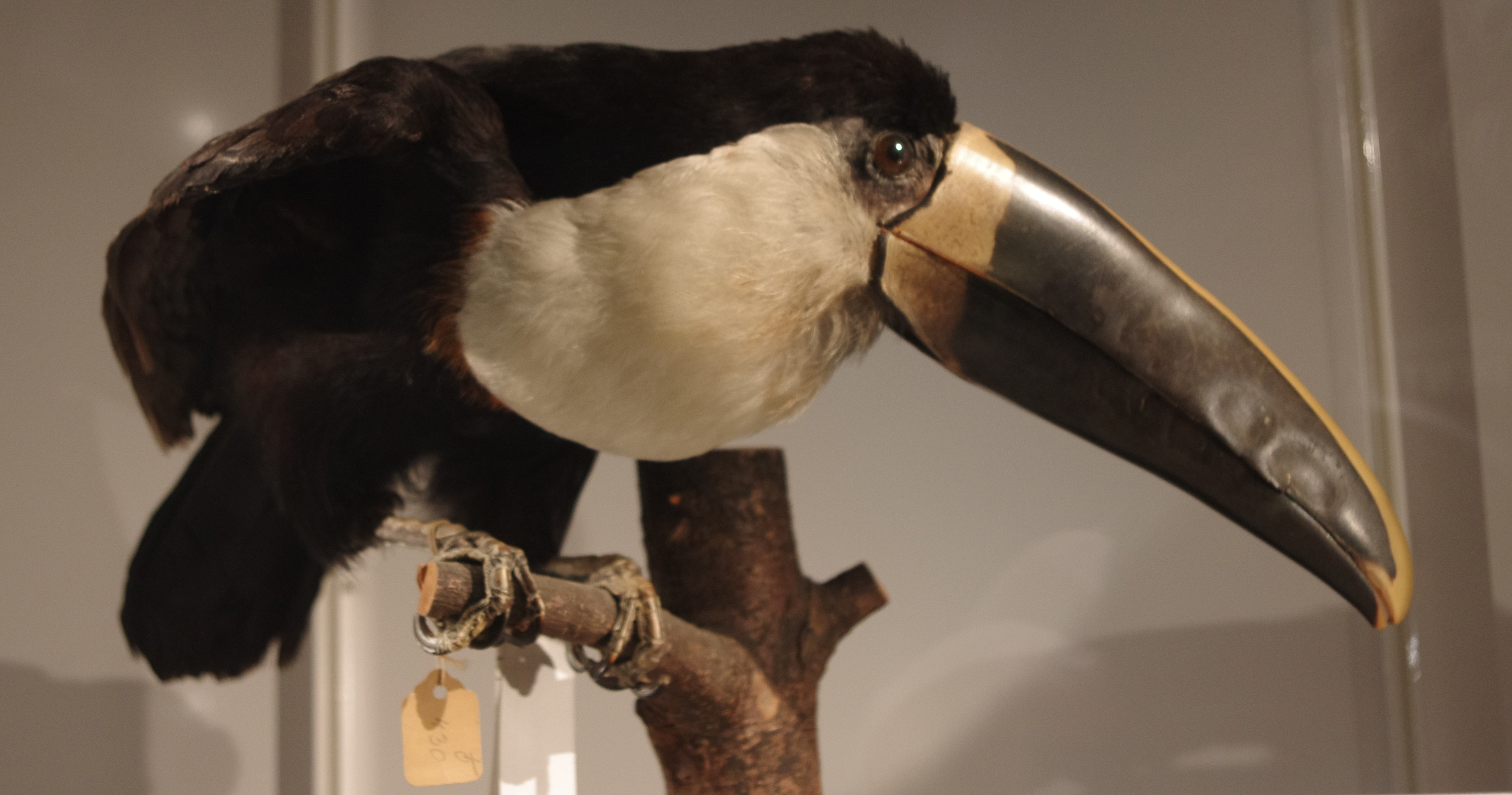 Female White-throated Toucan (Ramphastos tucanus) specimen (No. 15798) on display in the Beaty Biodiversity Museum